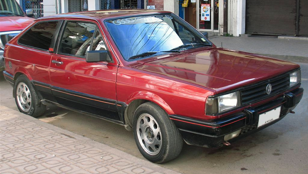 Volkswagen Gol 1.8 GTS 1990 (first facelifted version)